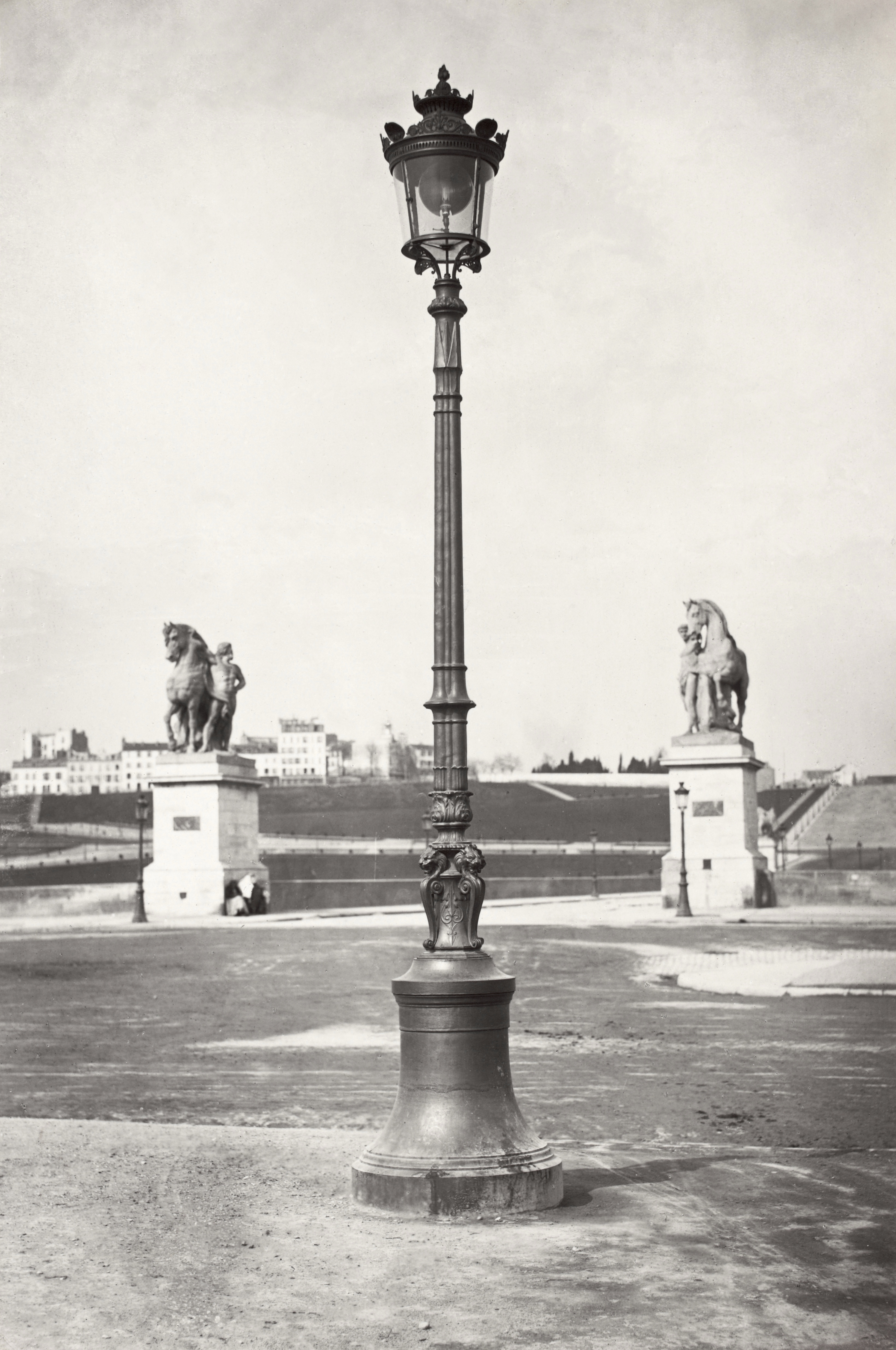 Lamp post framed by two classical style statues of man and horse of the pont d'Iéna and wide open lawn space in background.